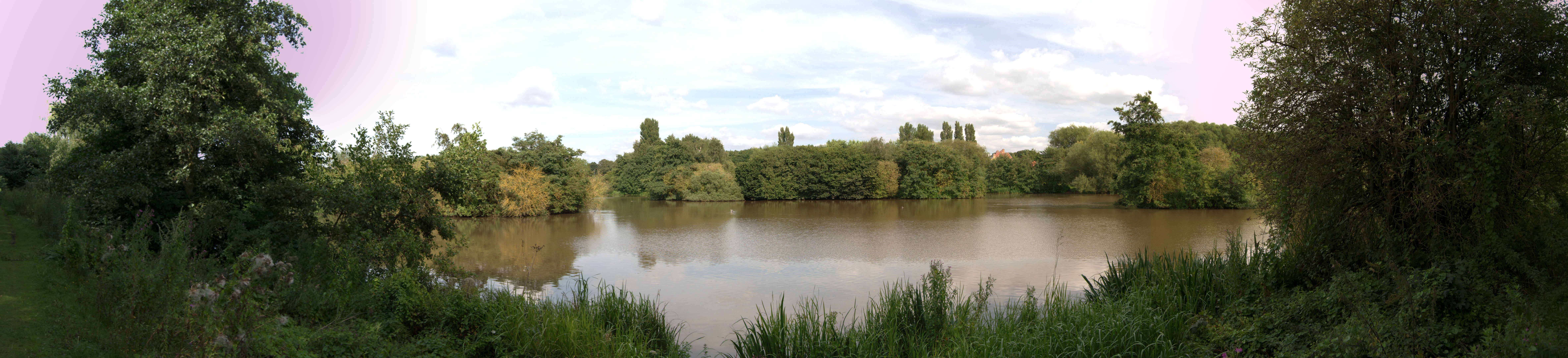 Panorama made using HUGIN of the view across Mill Lakes in Bestwood Country Park, looking West to East.